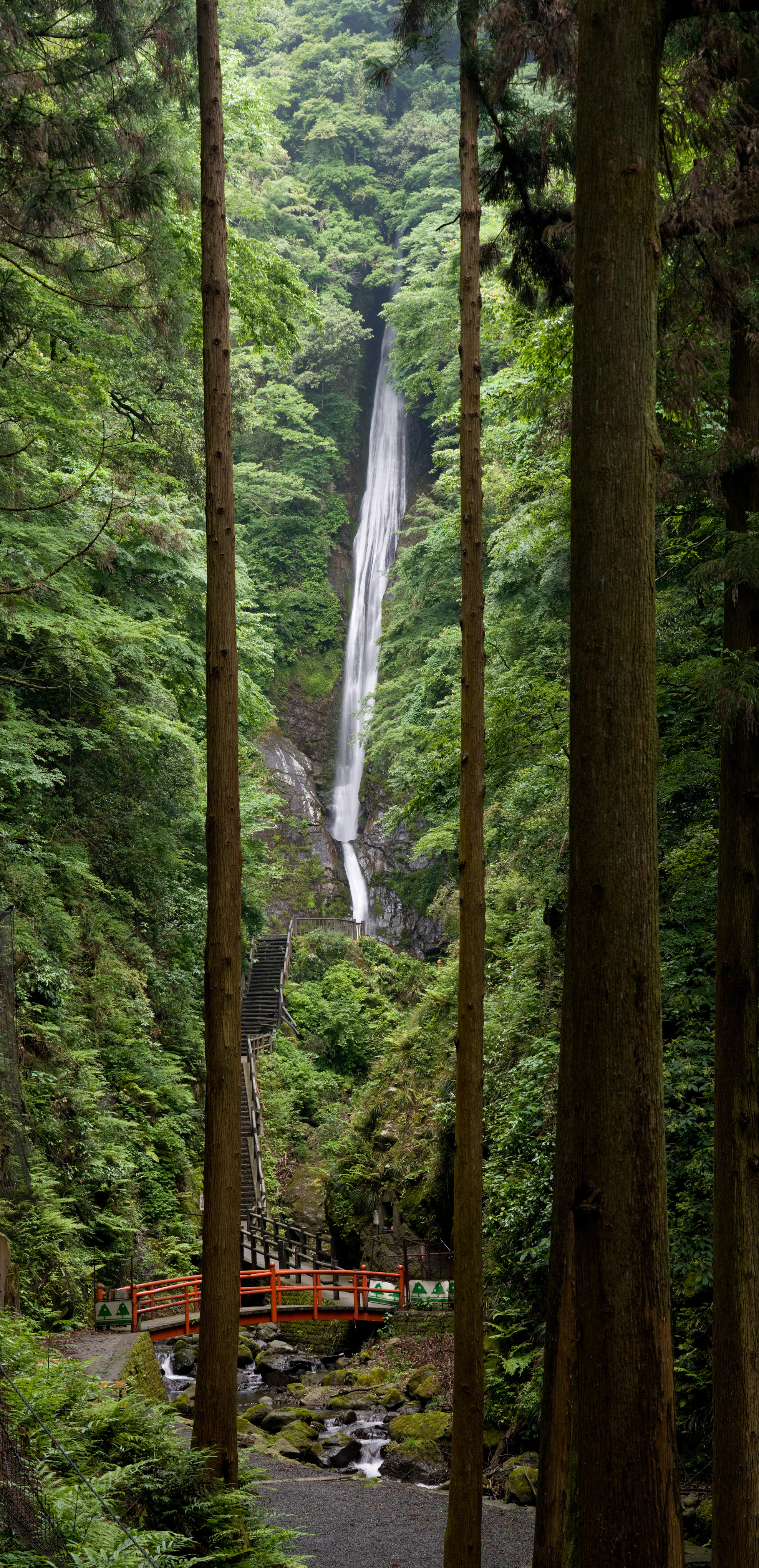 Shasui falls (Shasui-no-taki 洒水の滝) in Yamakita town, Kanagawa pref, Japan.